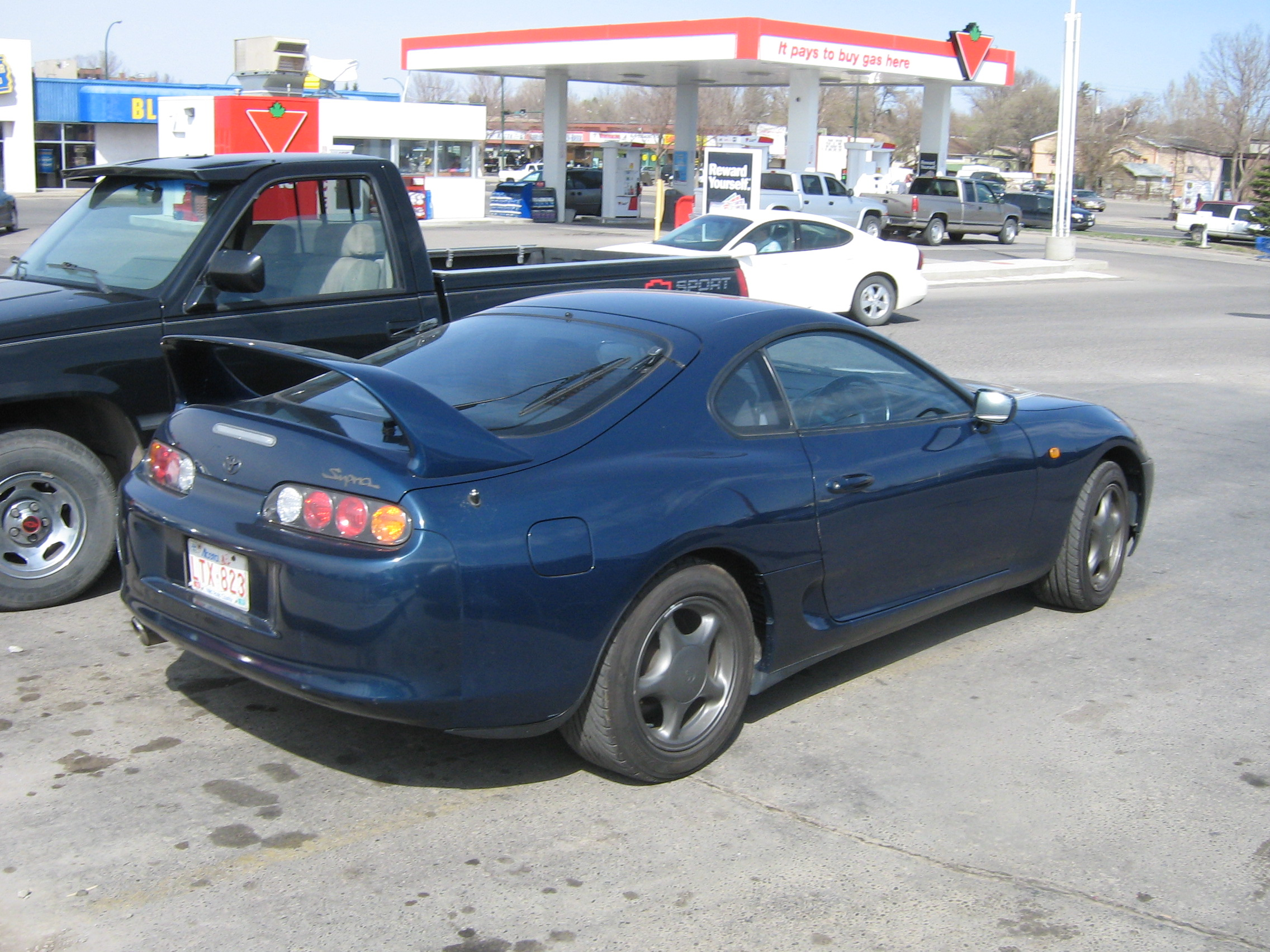 Imported right hand drive Toyota Supra. Left hand drive ones are extremely rare here but these Japanese ones are starting to show up.